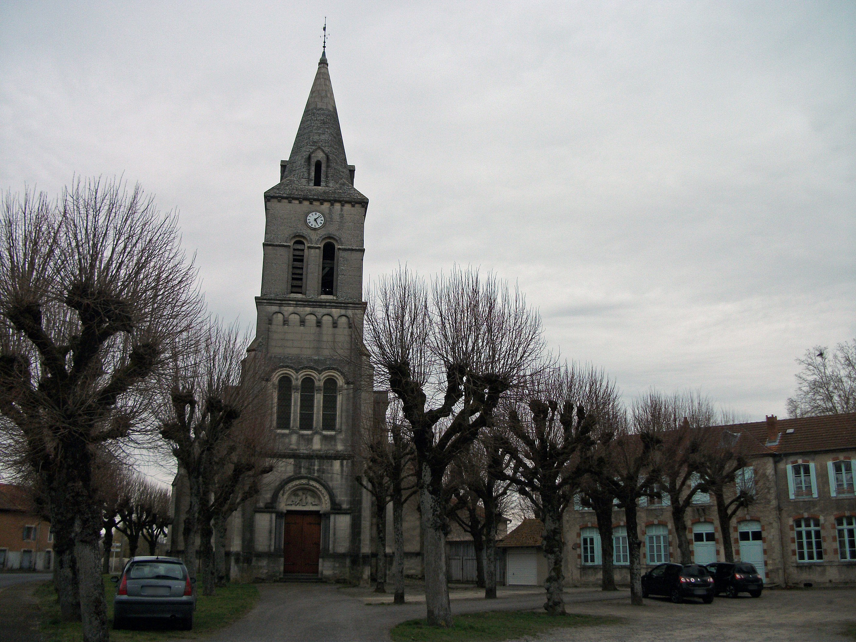 Church in Bussières-et-Pruns, Puy-de-Dôme [10131]